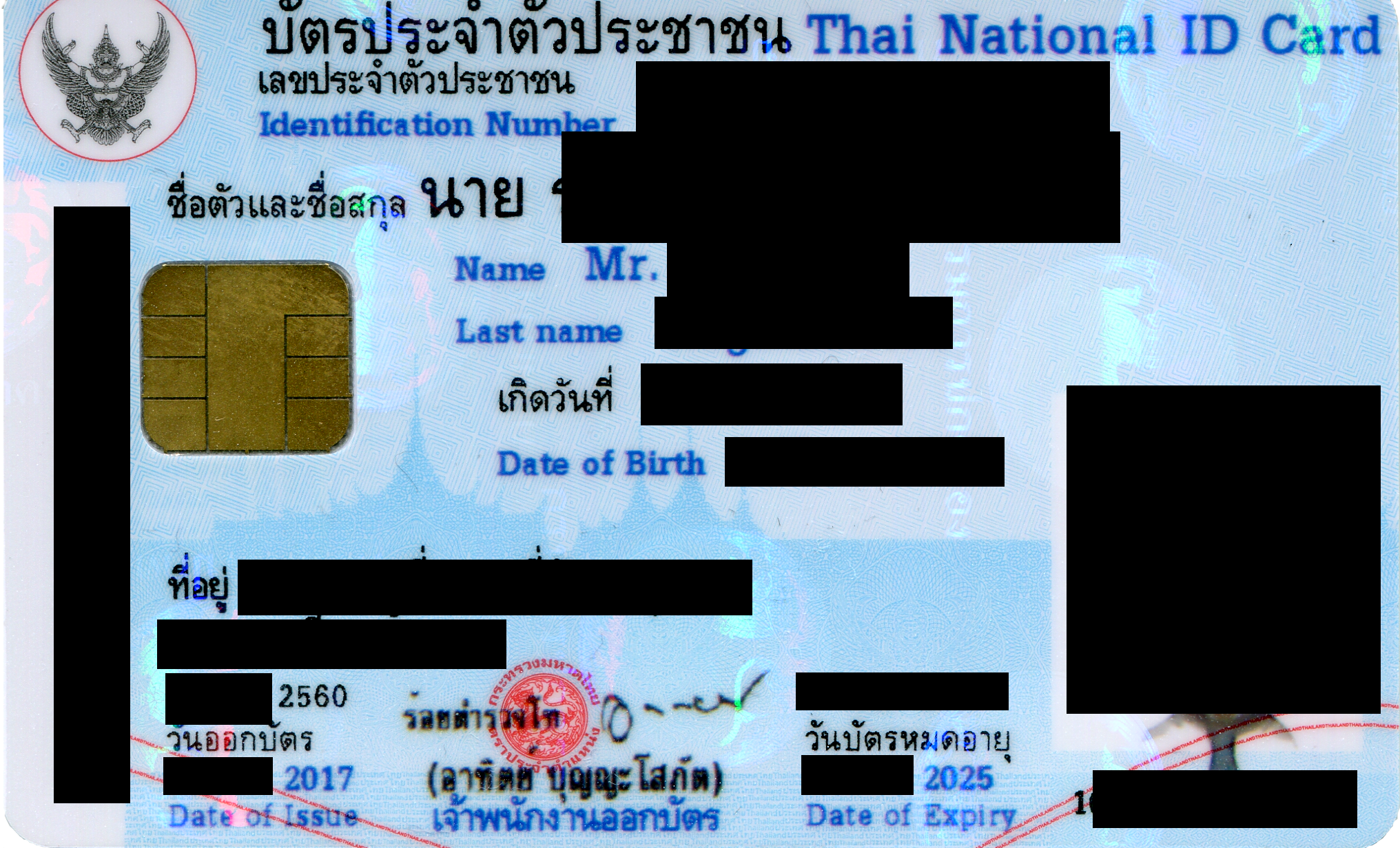 The example of the front of Thai national ID card. The content is filtered (censored) due to privacy concern.